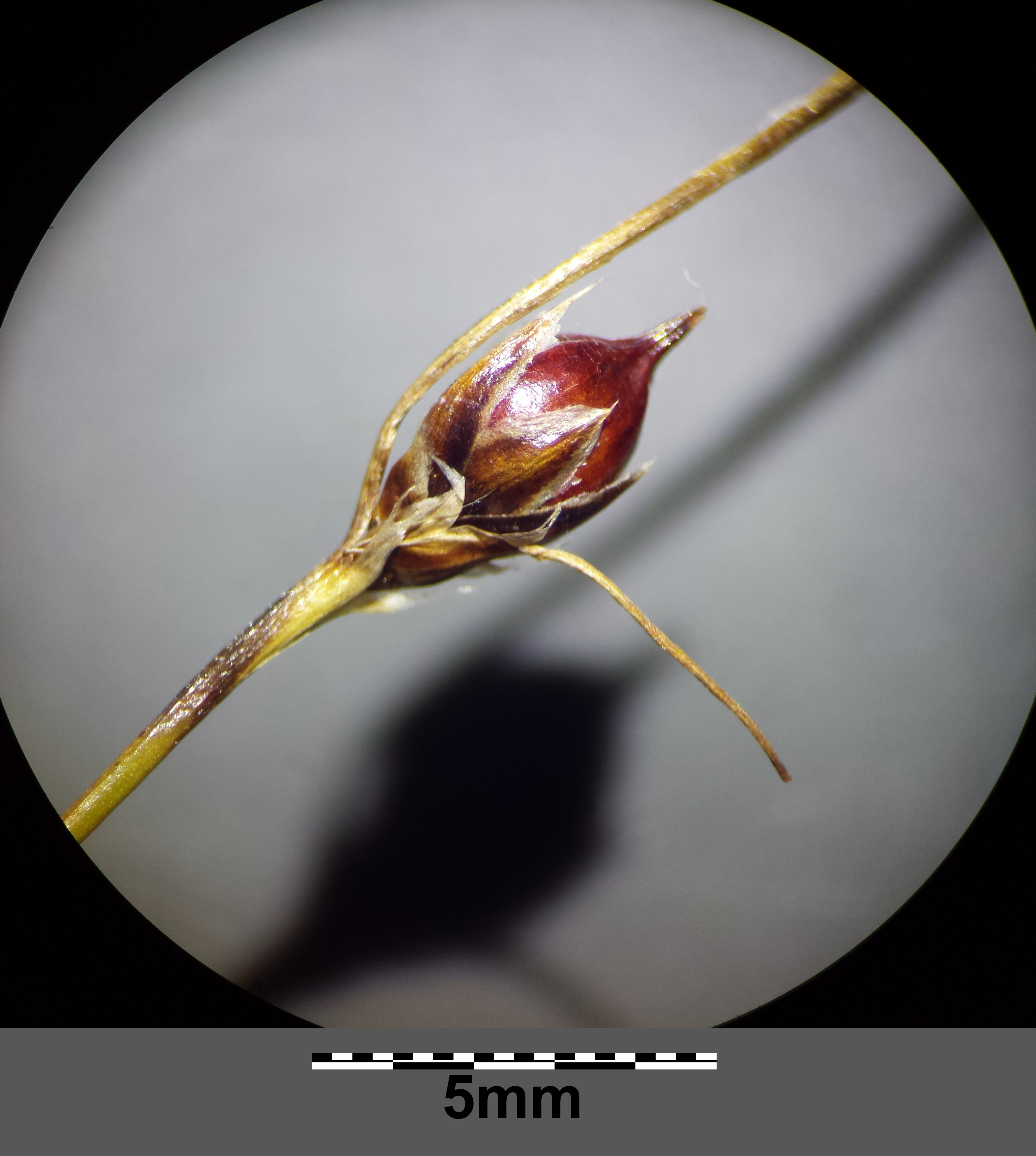 Fruit Taxonym: Juncus monanthos ss Fischer et al. EfÖLS 2008 ISBN 978-3-85474-187-9 Location: Waxriegel/Schneeberg, district Neunkirchen, Lower Austria - ca. 1800 m a.s.l. Habitat: poor grassland